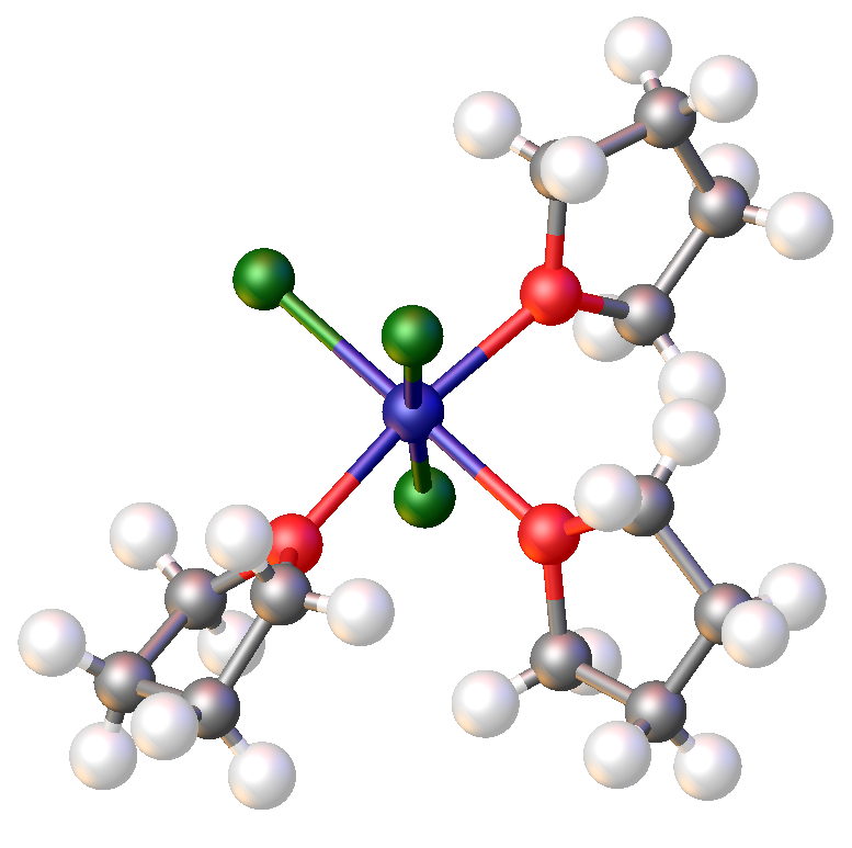 Structure of VCl3(thf)3